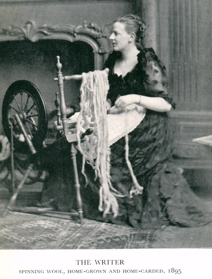 Photograph of Elizabeth Haldane taken from her autobiography 'From One Century to Another' an out of copyright work. This photography is to be inserted her Wikipedia biography.